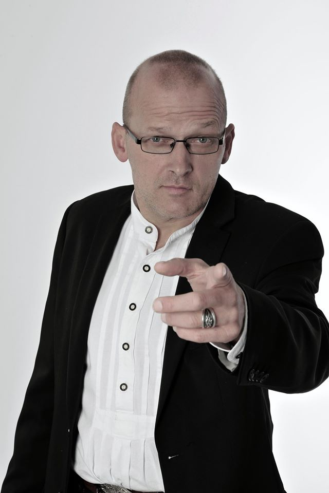 Thorsten Stelzner